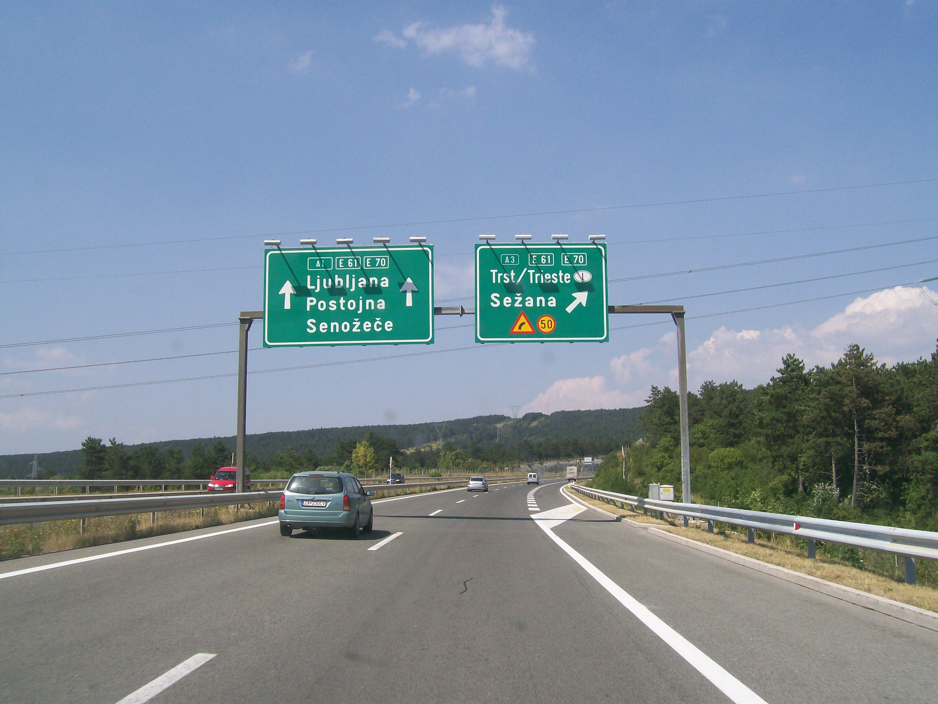 A1/A3 junction, west Slovenia